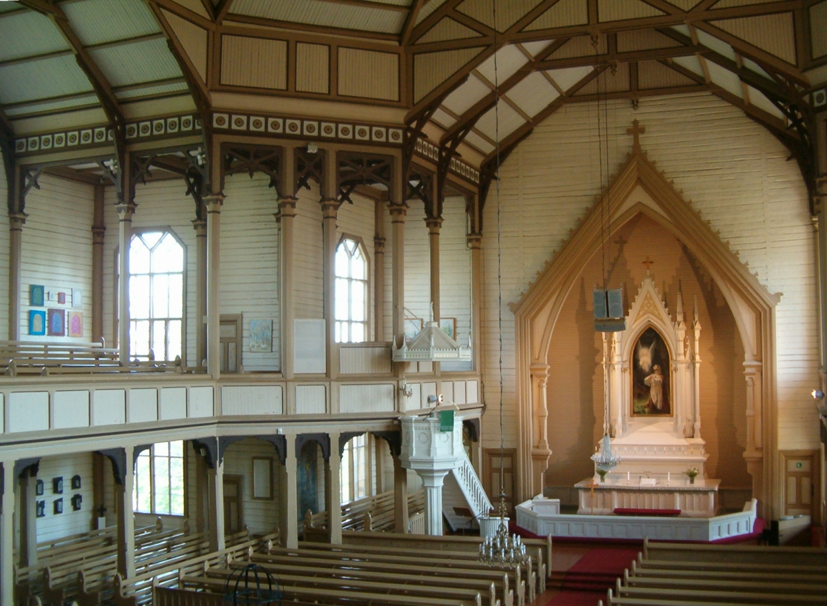 The wooden Church of Heinävesi, Finland. Designed by Josef Stenbäck and built in 1890–1891. The altar.